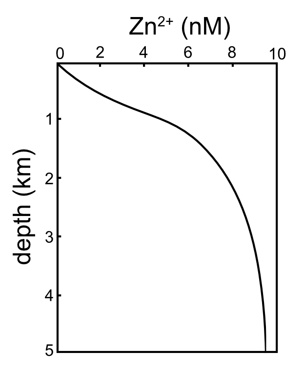 Vertical Zn concentration profile in the Pacific ocean. Data from: Bruland, 1980. Oceanographic distributions of cadmium, zinc, nickel, and copper in the North Pacific. Earth Planet Sci Lett 47, 176-198.